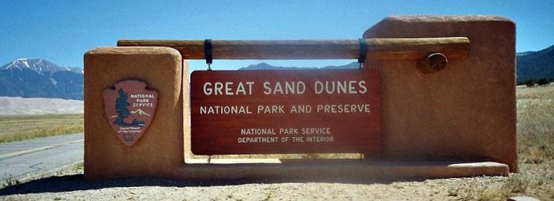 Colorado Great Sand Dunes